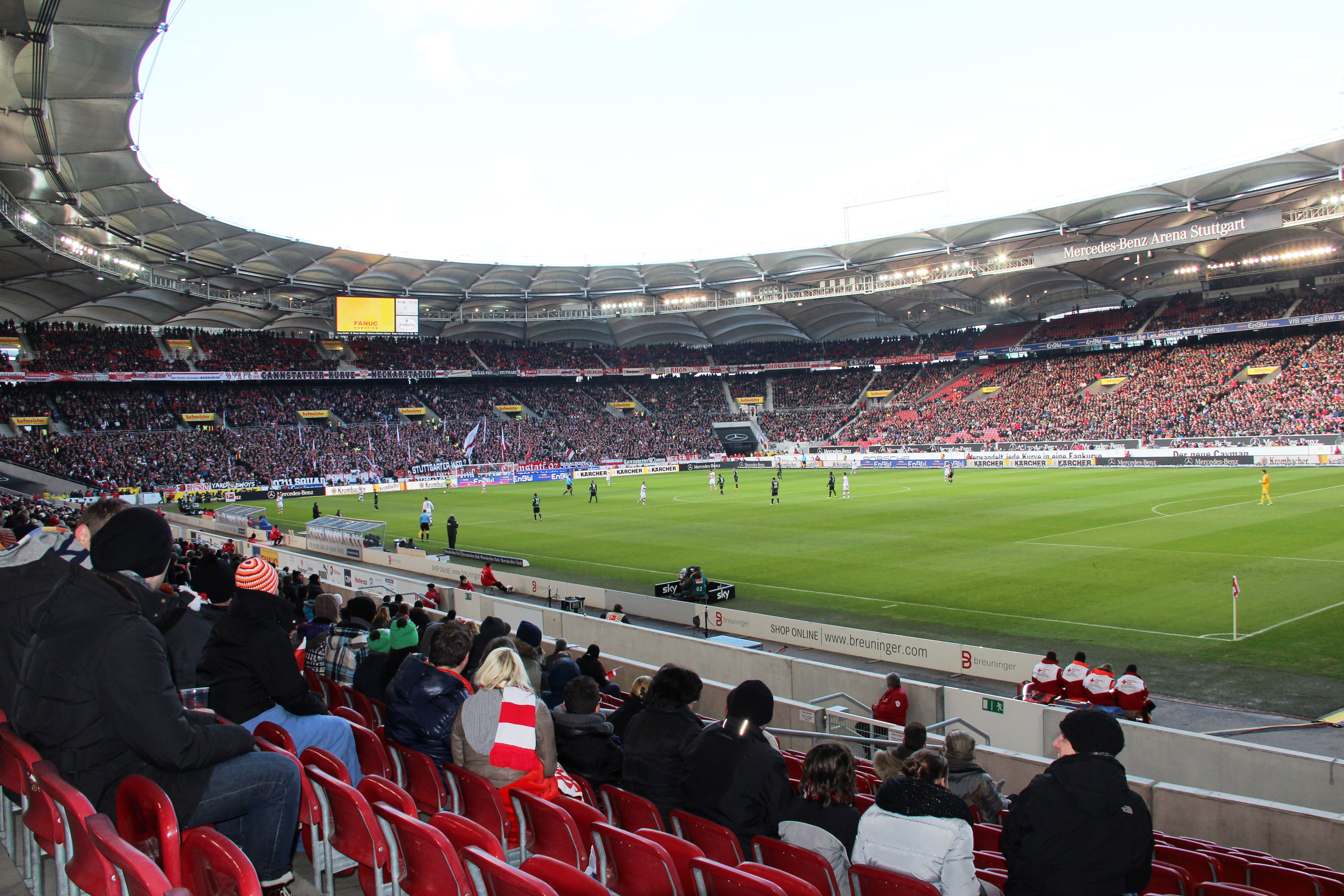 Mercedes-Benz Arena during Bundesliga match of VfB Stuttgart against Werder Bremen on 9 February 2013